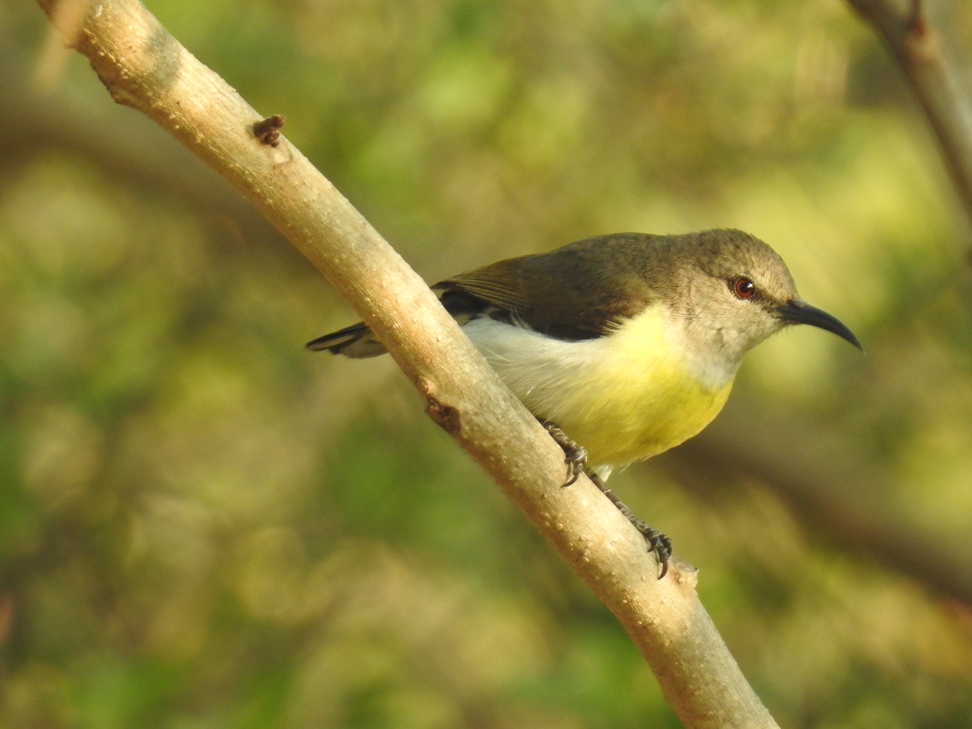 Purple-rumped sunbird female